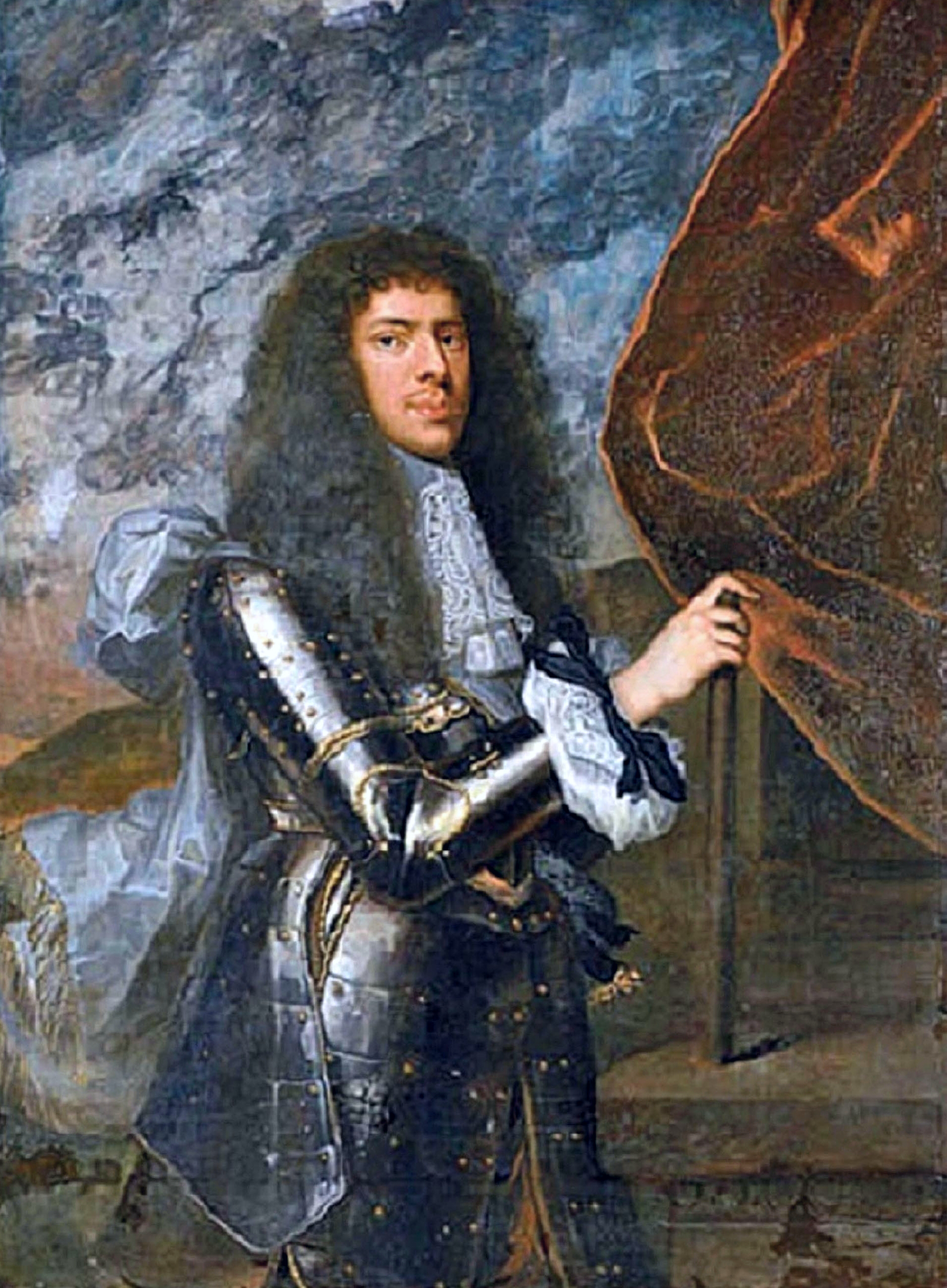 Portrait of Eugène-Maurice of Savoy (1635-1673), count of Soissons by Pierre Mignard (or school), Swedish National Museum, Stockholm. Oil on canvas, 132 x 98 cm.